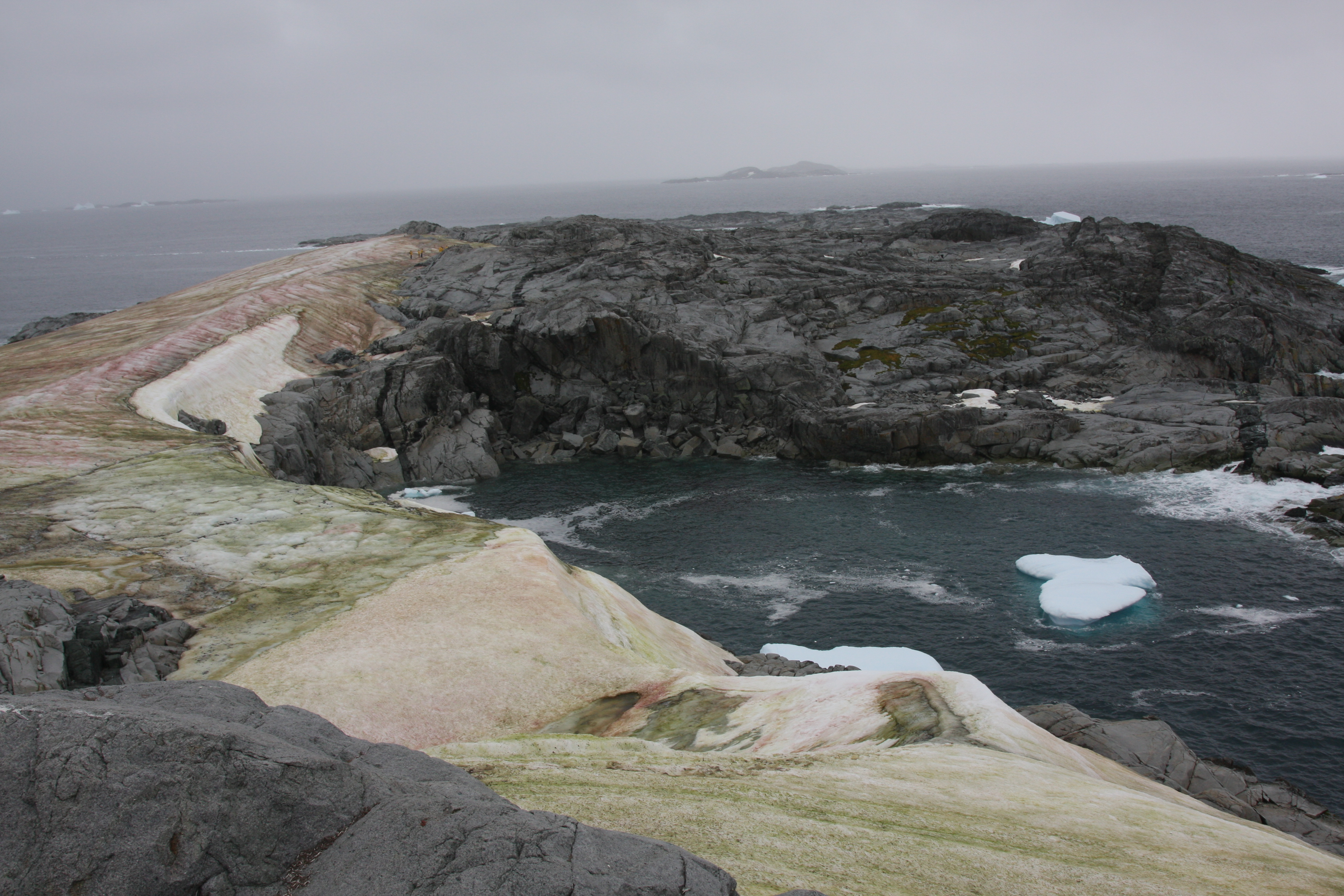 Bay at the SE end of Petermann Island Antarctica where the Charcot expedition wintered over in 1909.